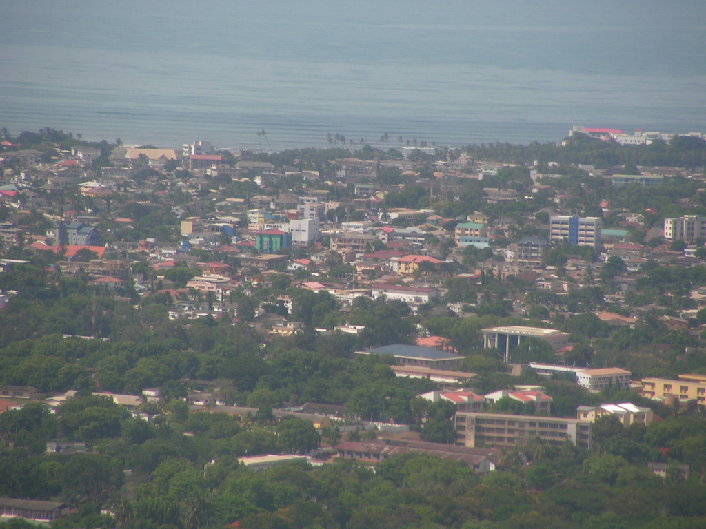 This is a glimpse of Labone from the air, which is a retail, hotel, restaurant and night life area. The liveliest part of town.